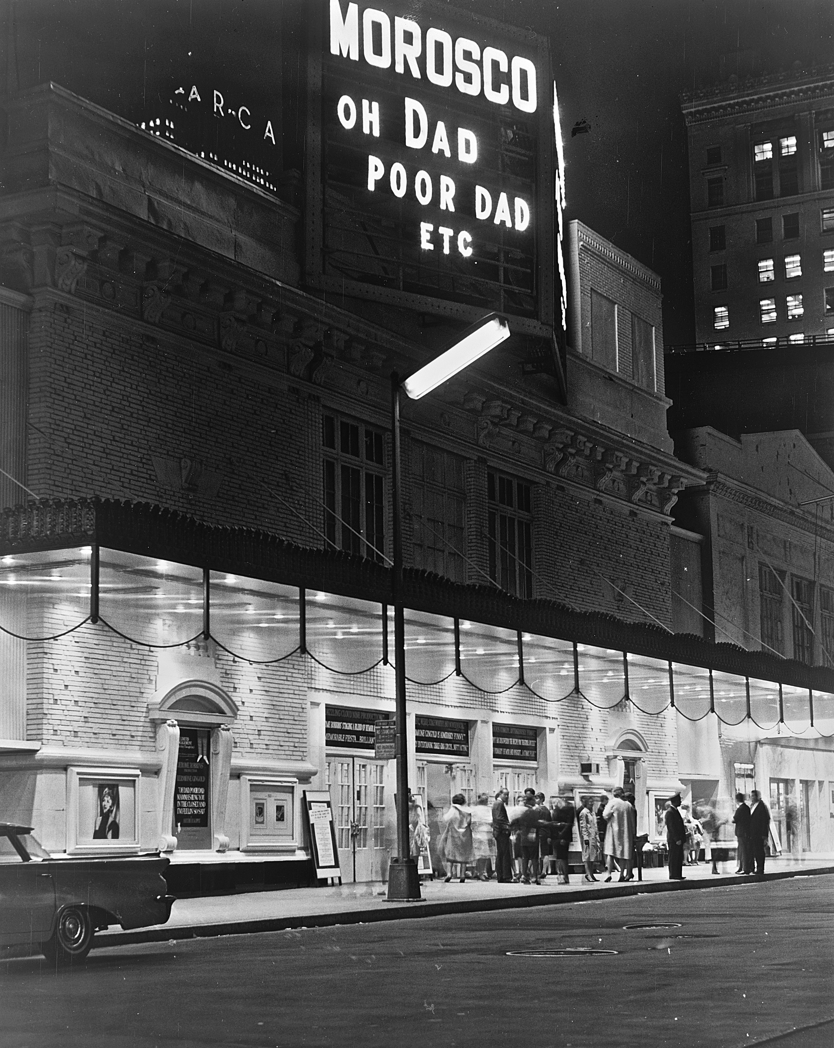 Front of Morosco Theatre on West 45th Street, at night. The sign refers to Arthur Kopit's comedy, Oh Dad, Poor Dad, Mamma's Hung You in the Closet and I'm Feelin' So Sad, which ran at the Morosco from August 27 to October 5, 1963. Internet Broadway Databast website, "Oh Dad, Poor Dad, Mamma's Hung You in the Closet and I'm Feelin' So Sad" At the far right, part of the Bijou Theatre is visible. This image was cropped and converted from tiff to jpg format by the uploader.